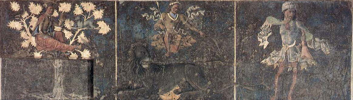 various Ferrarese artist Allegory of July Fresco Palazzo Schifanoia, Ferrara